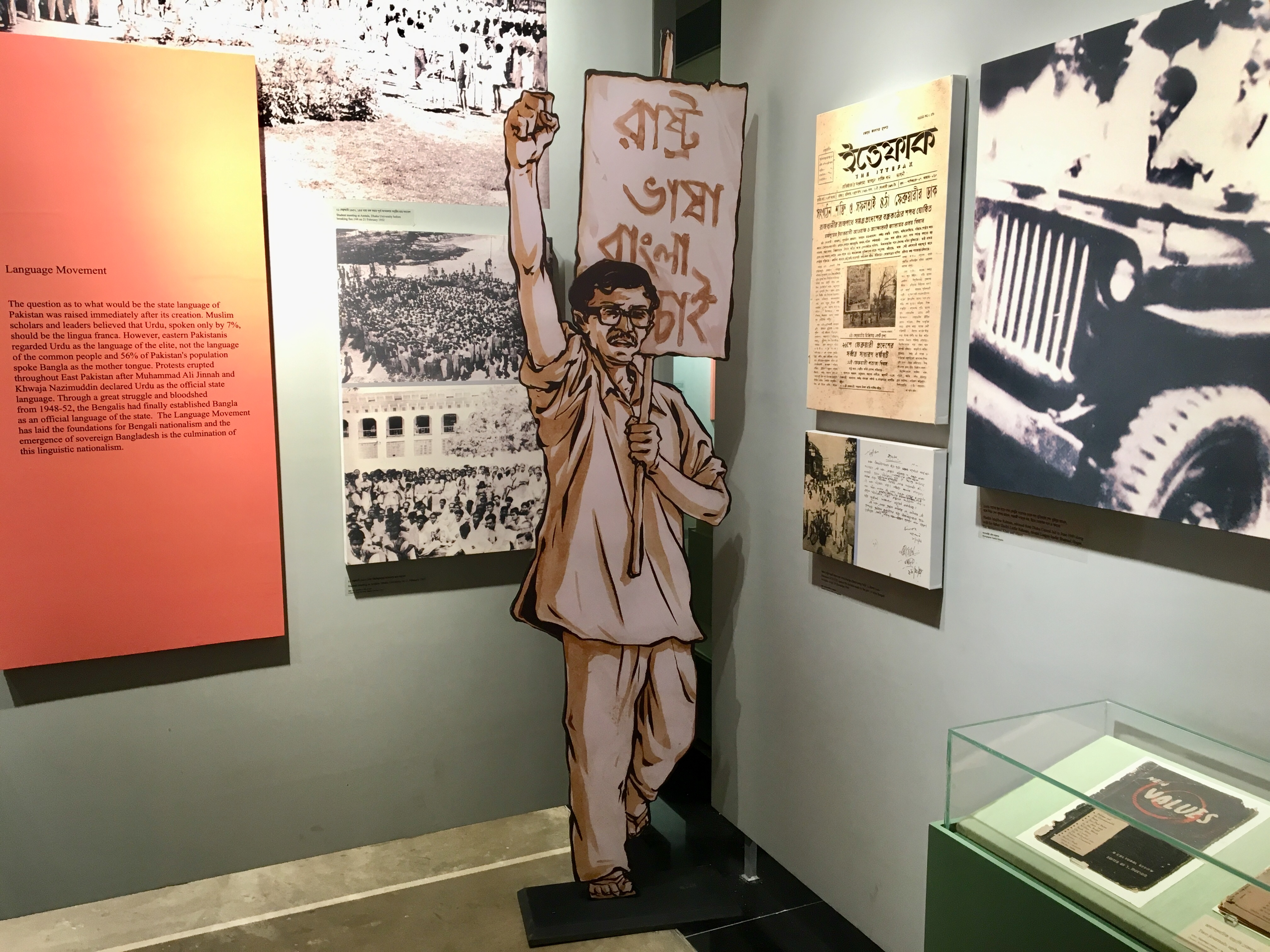 Inside Liberation War Museum, Dhaka